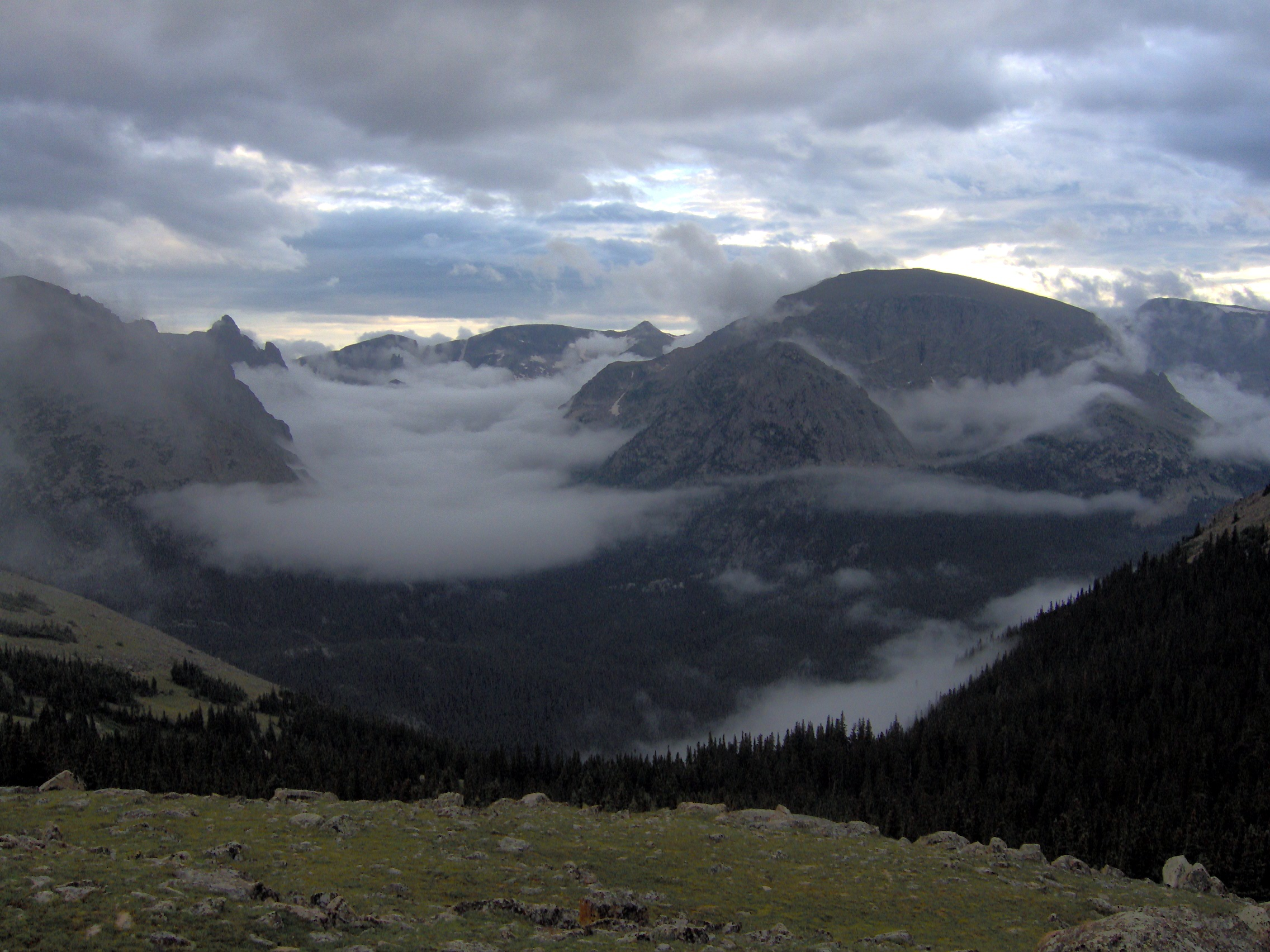 View from the Ute Trail in Rocky Mountain National Park, near the trail's crossing of US 34. Because the camera was set for Eastern Daylight Time, the picture was taken at 19:45 local time.